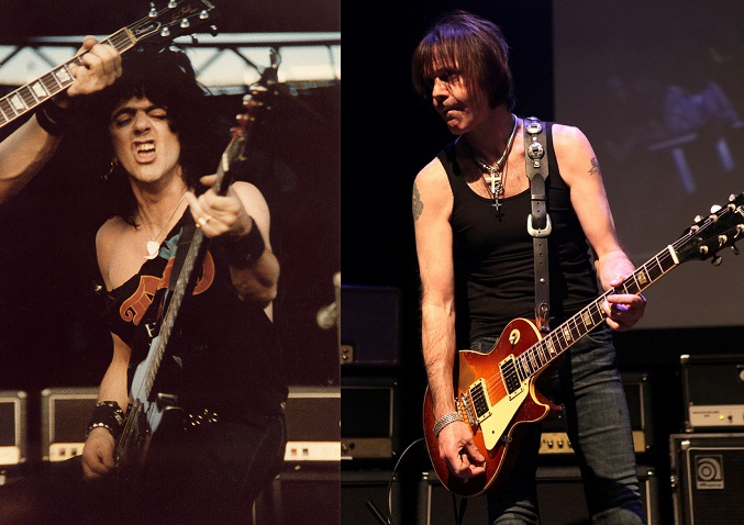 The two front men of defunct british rockband 'Wild Horses': Jimmy Bain and Brian Robertson.